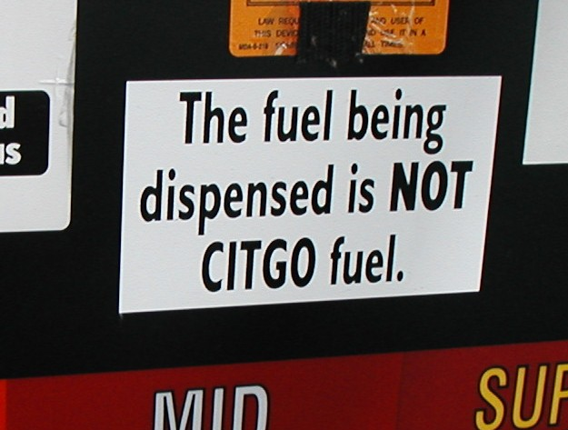 Message shown on a Citgo station at a 7-Eleven store photographed in USA.